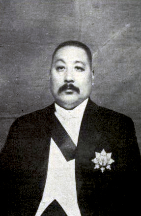 Kao Ling-wei, Premier Minister of China in 1923